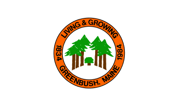 The official town flag of Greenbush, Maine, designed by Nancy Tenney.